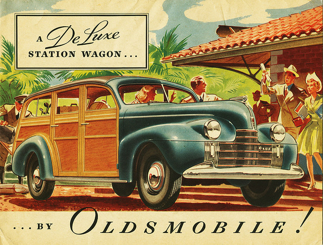 1940 Oldsmobile Station Wagon, advertisement